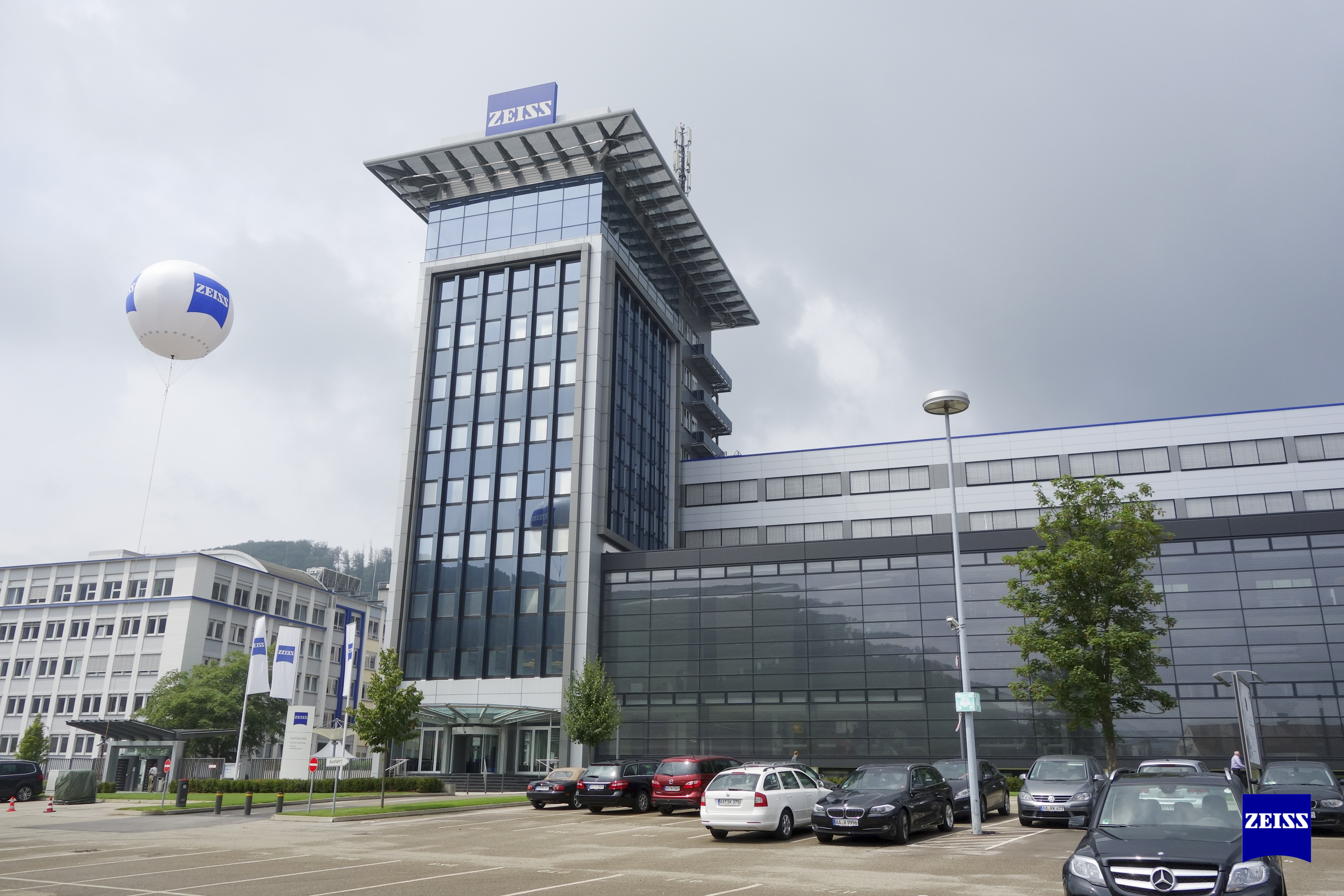 Impressions from the opening of the ZEISS Forum and Museum of Optics, July 12 2014, Oberkochen, Germany. Copyright Carl Zeiss AG/Carl Zeiss Microscopy GmbH 2014.